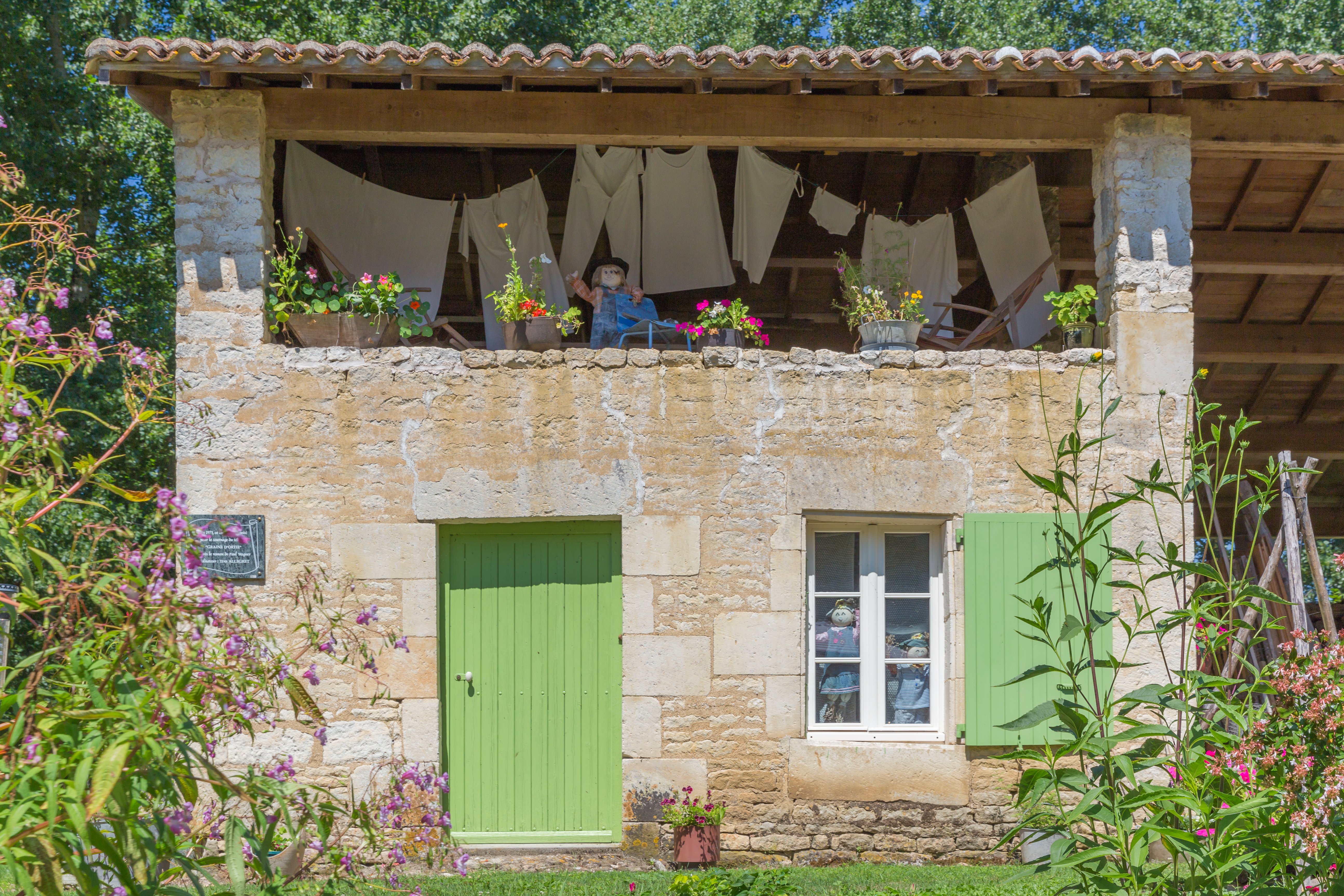 House at Sansais in the Marais poitevin, France.